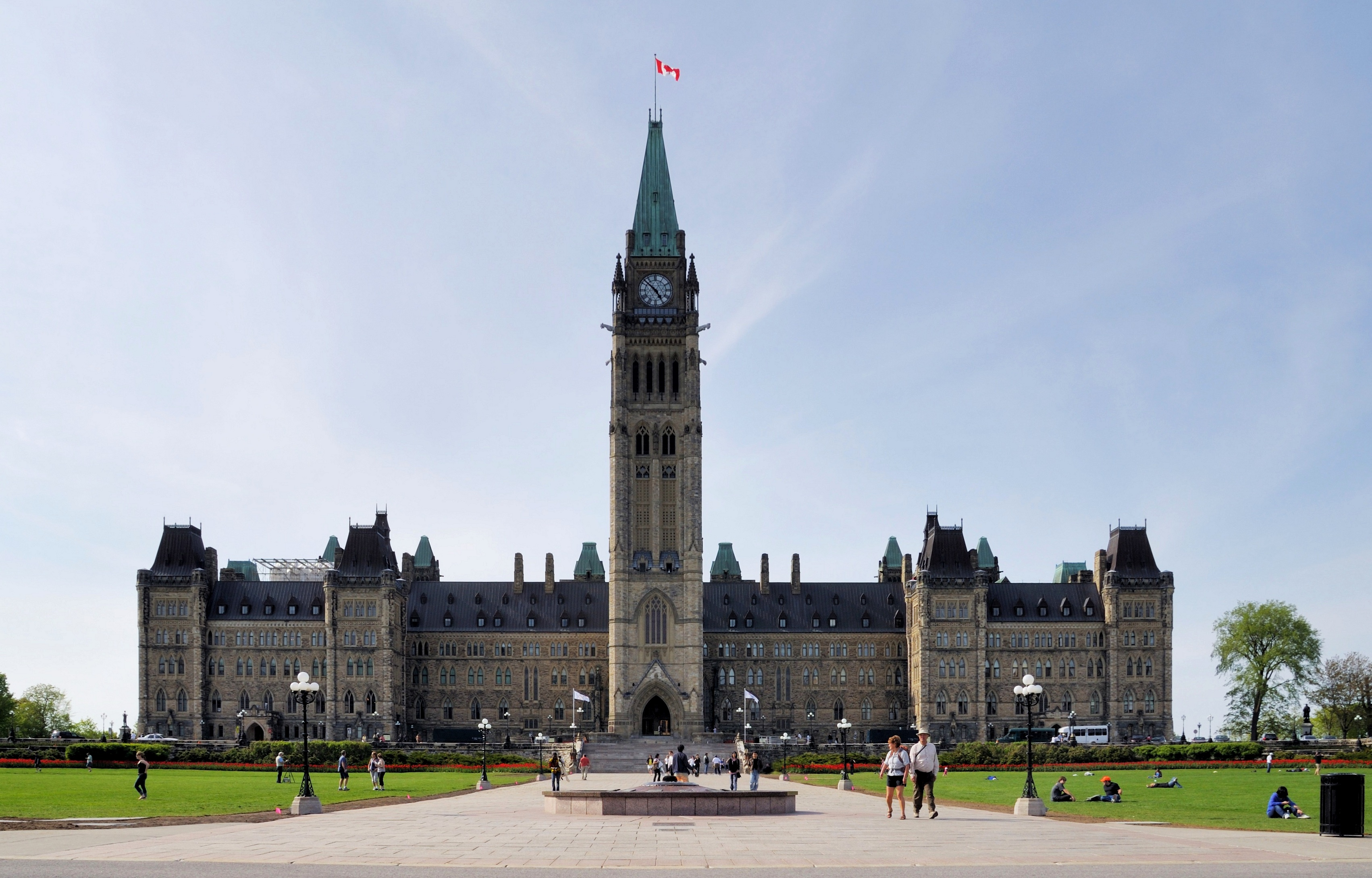 Ottawa: Centre Block of Parliament Hill